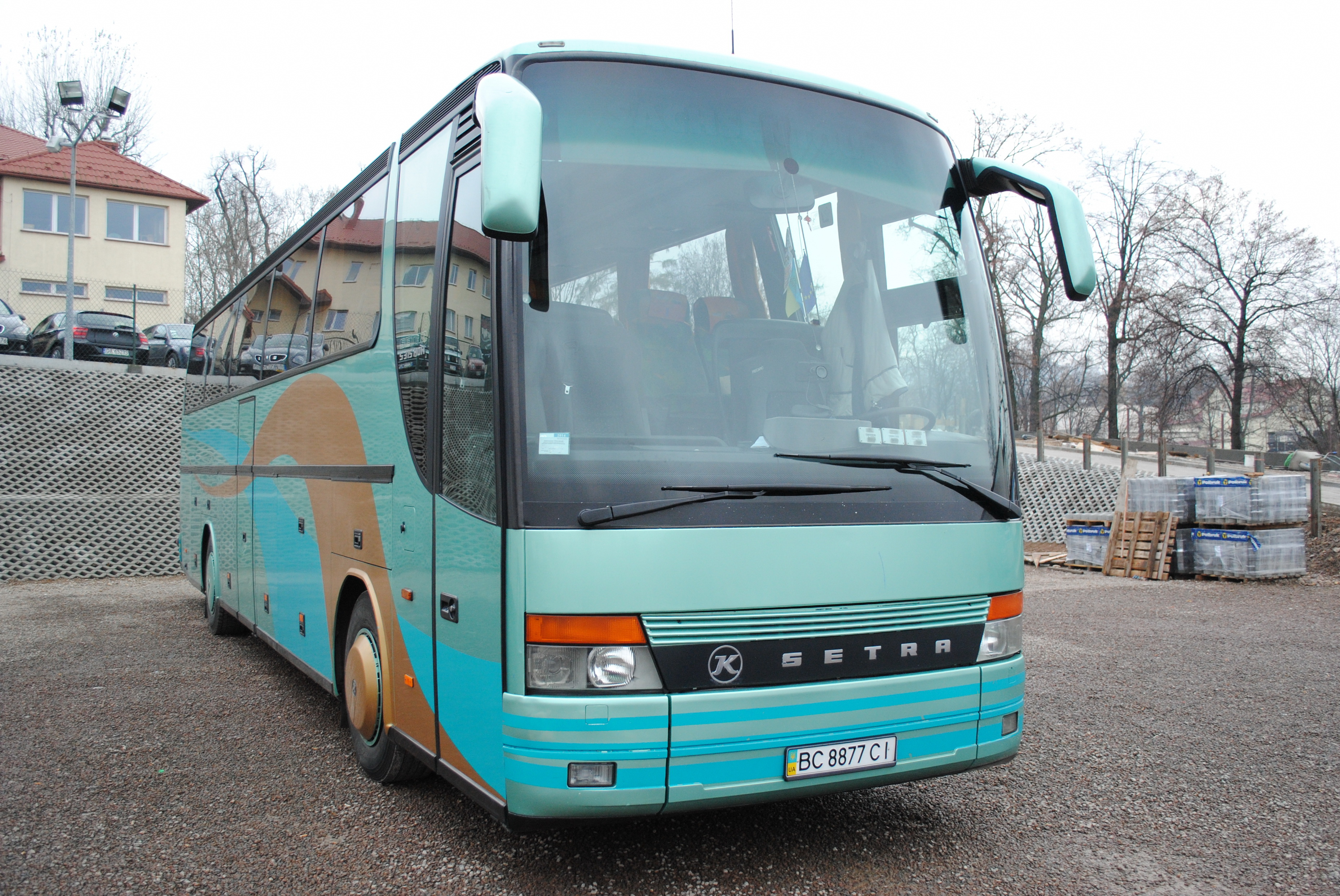 Setra S 315 HDH in Wieliczka, belongs to a Ukrainian operator Akkord-Tour. Built 1998.